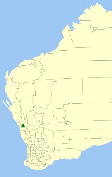 Description=Location of the Local Government Area in Western Australia